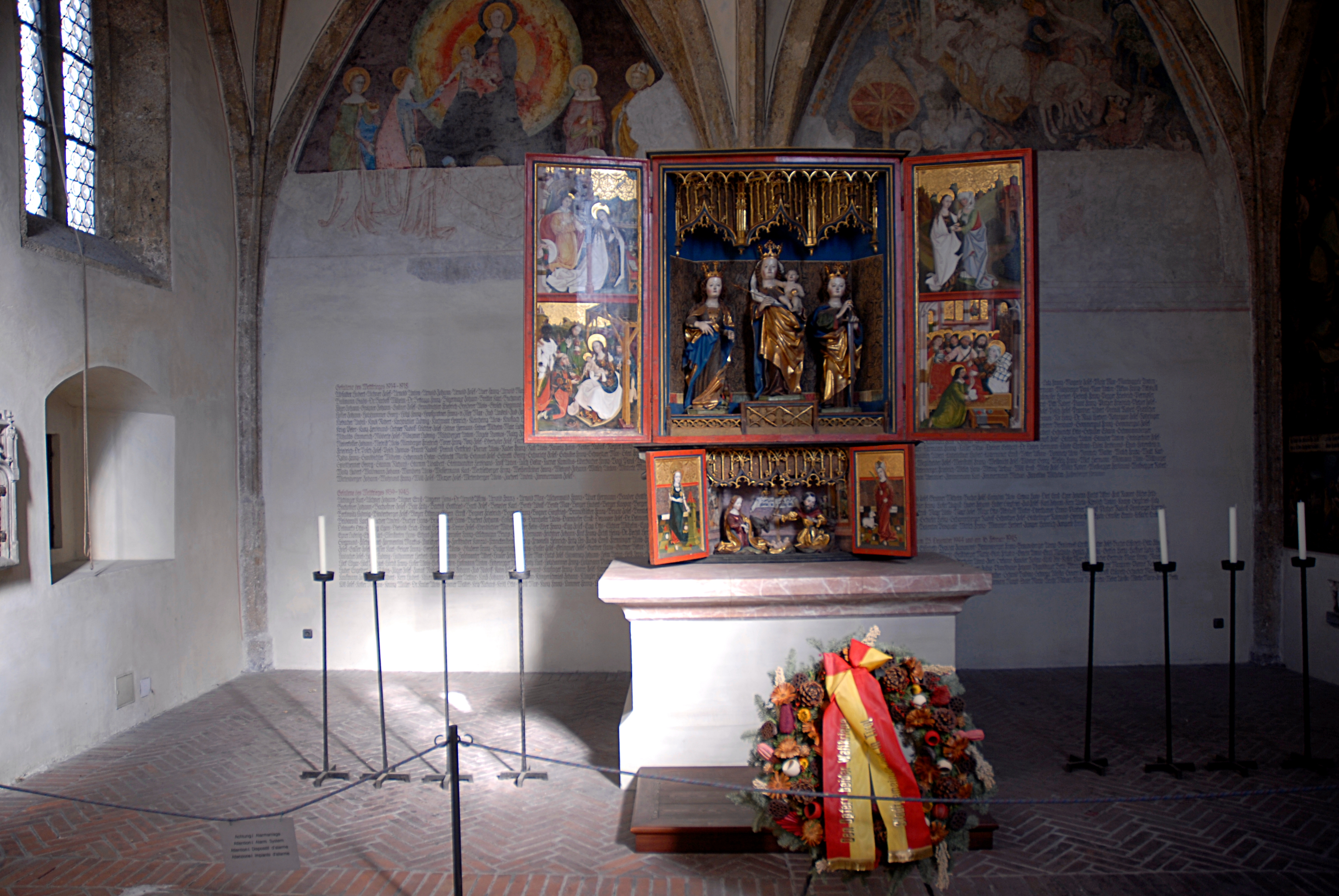 The late gotic winged altar of Sankt Magdalena im Halltal, since 1923 in the Kriegergedächtniskapelle in Hall in Tyrol